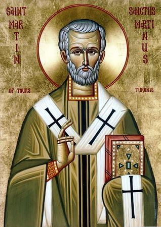 An Orthodox Icon